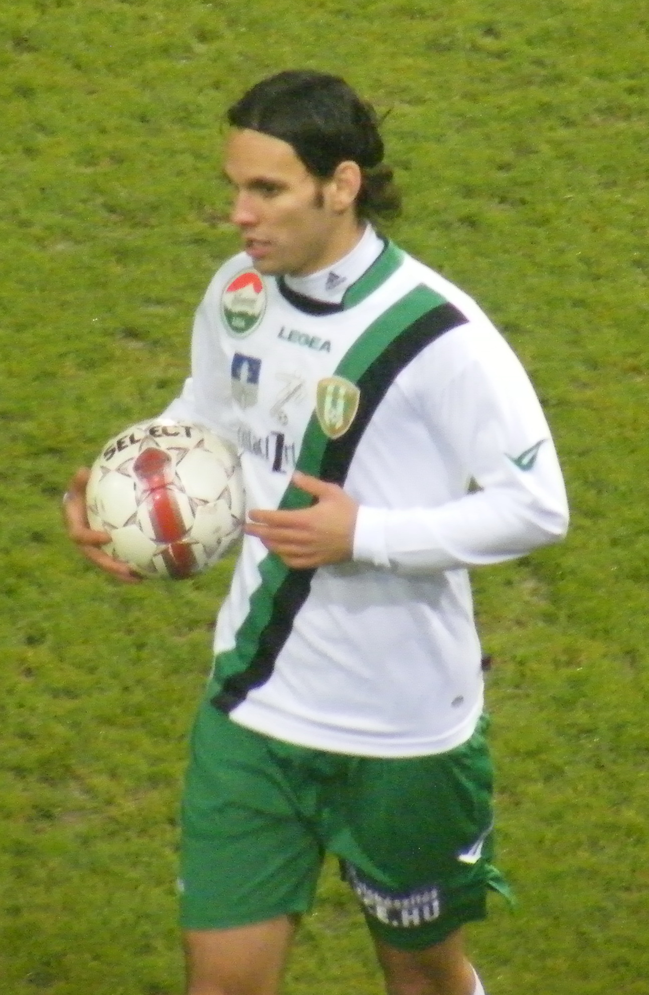 Szabolcs Schimmer Hungarian association football player.